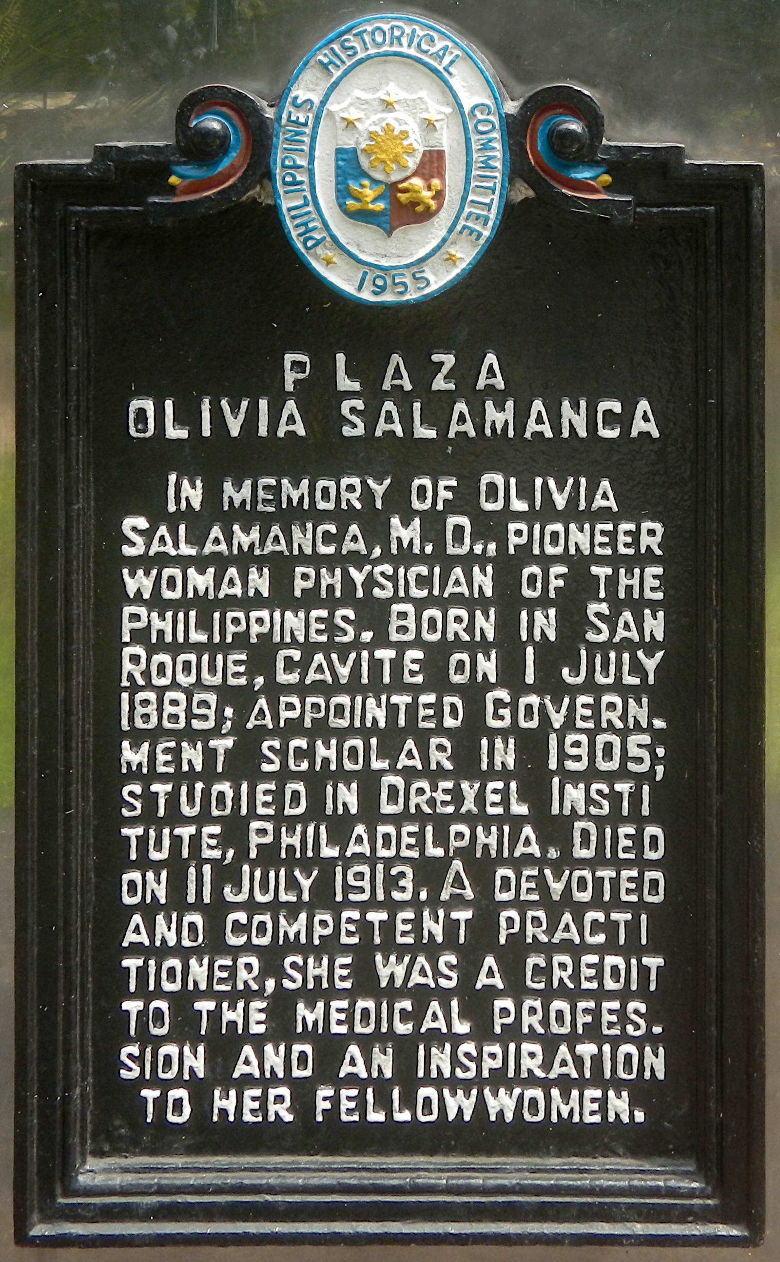 Historical marker installed by the Philippines Historical Committee to commemorate Olivia Salamanca.